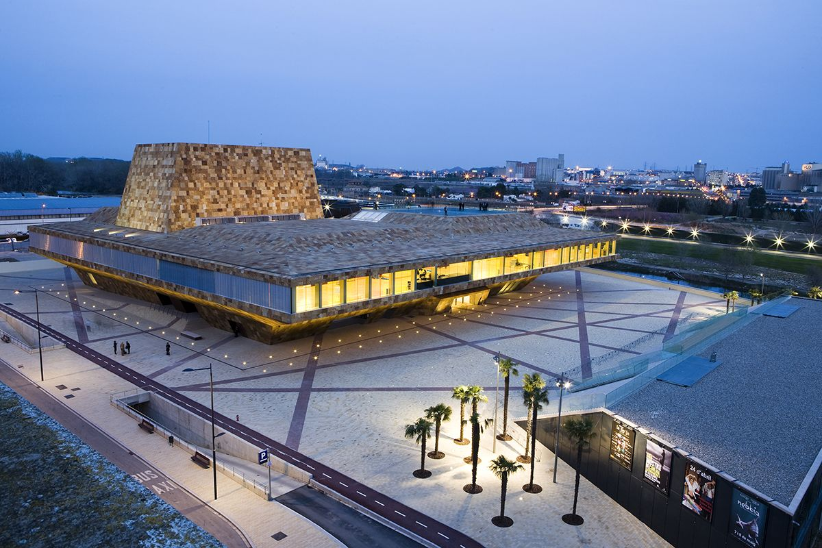 La Llotja de Lleida by night